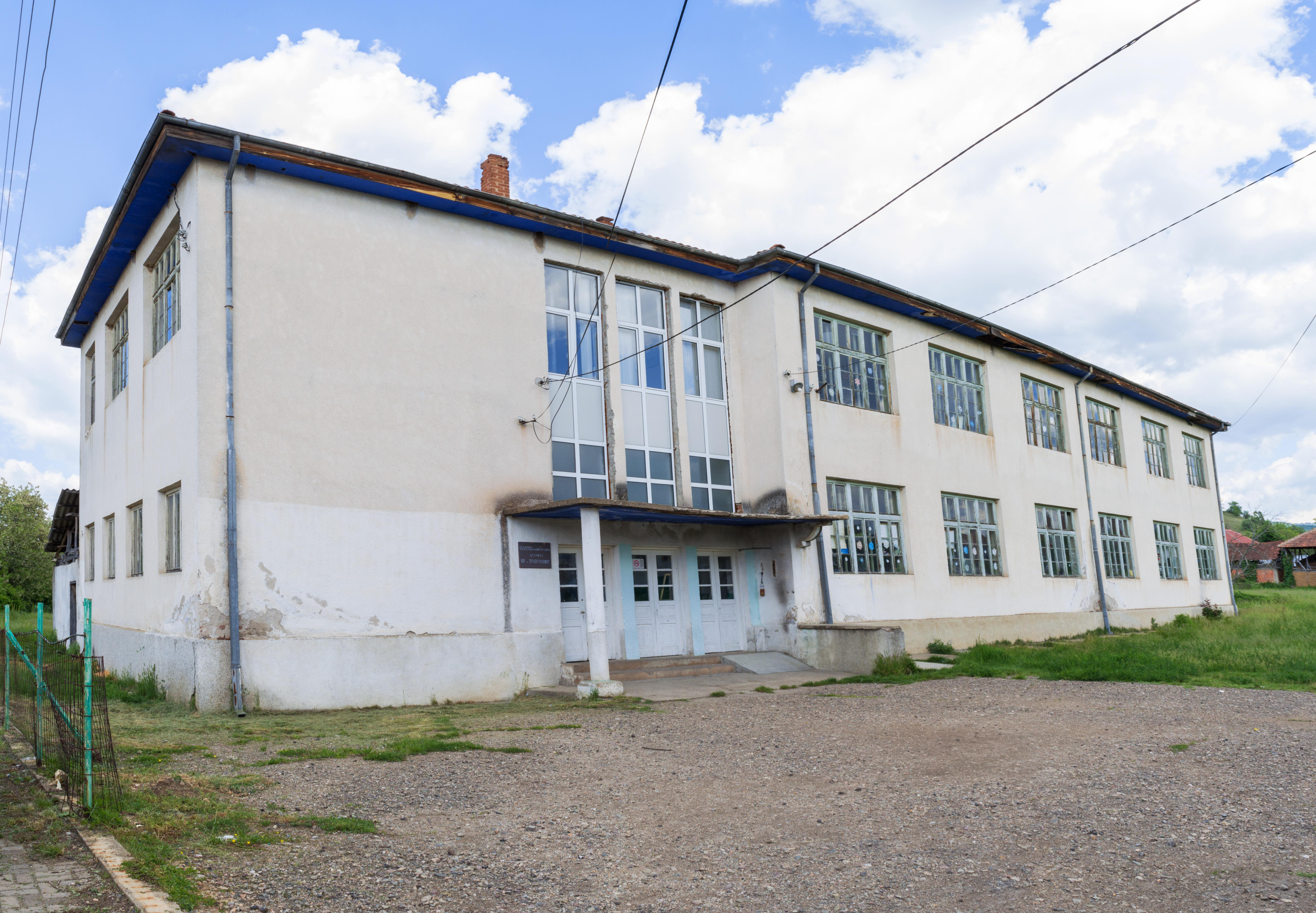 View of primary school in the village Trabotivište